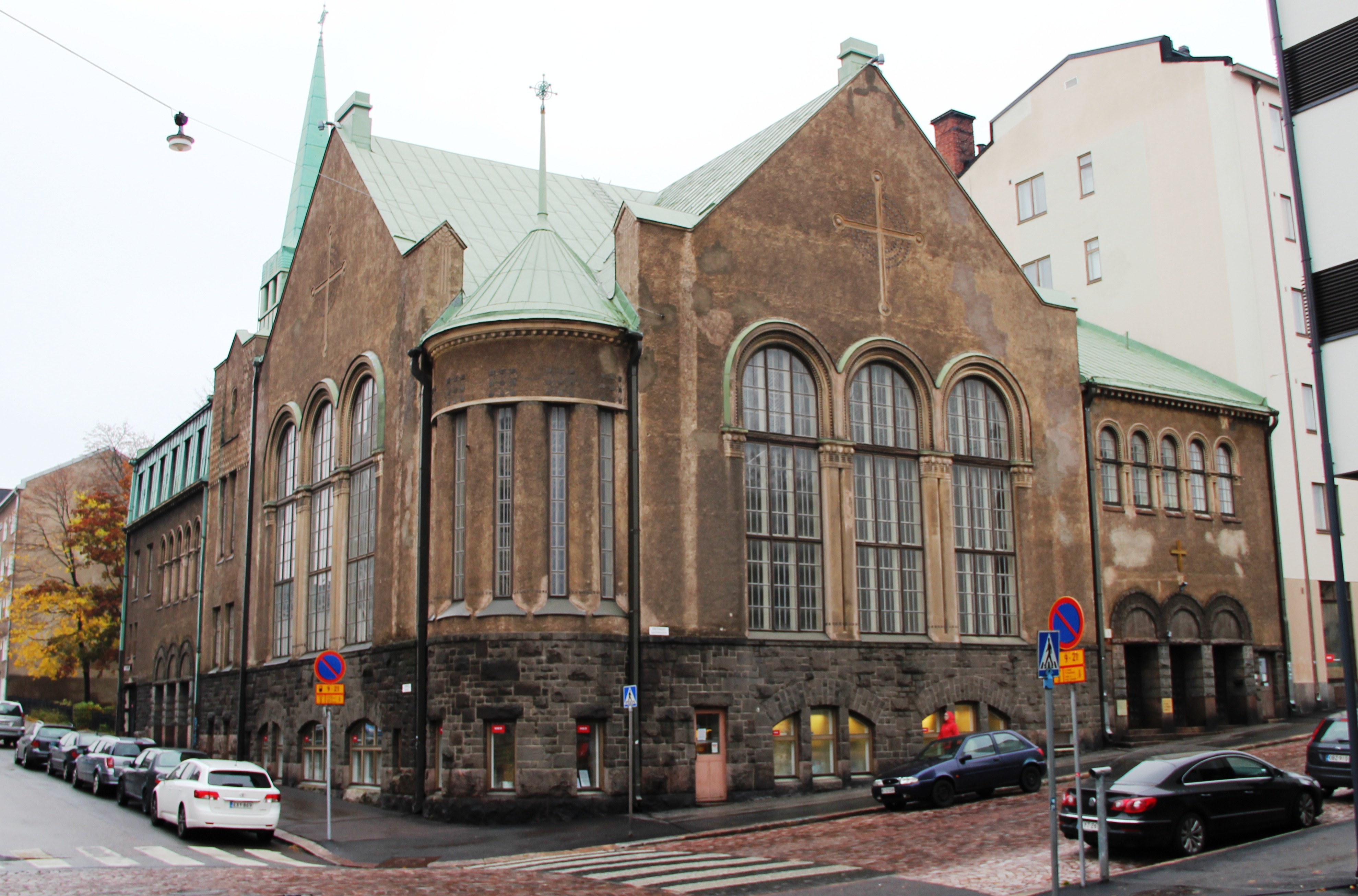 The Chapel of the Holy Heart, Kirstinkatu 1, Helsinki, Finland, owned by Suomen Luterilainen Evankeliumiyhdistys (SLEY)